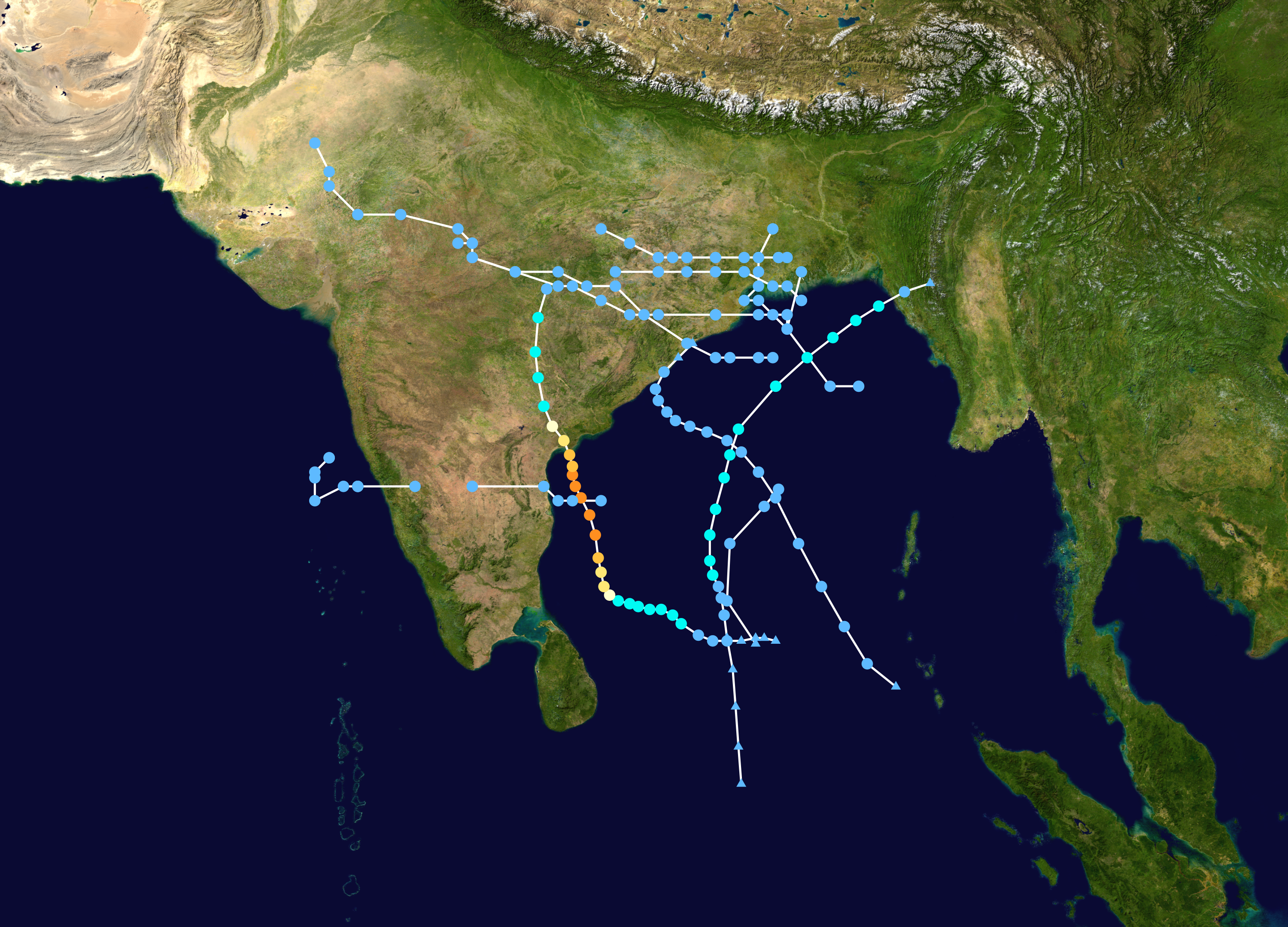 This map shows the tracks of all tropical cyclones in the 1990 Indian cyclone season. The points show the location of each storm at 6-hour intervals. The colour represents the storm's maximum sustained wind speeds as classified in the Saffir-Simpson Hurricane Scale (see below), and the shape of the data points represent the nature of the storm. Saffir–Simpson hurricane wind scale Tropical depression≤38 mph≤62 km/h Category 3111–129 mph178–208 km/h Tropical storm39–73 mph63–118 km/h Category 4130–156 mph209–251 km/h Category 174–95 mph119–153 km/h Category 5≥157 mph≥252 km/h Category 296–110 mph154–177 km/h Unknown Storm typeTropical cycloneSubtropical cycloneExtratropical cyclone / Remnant low / Tropical disturbance